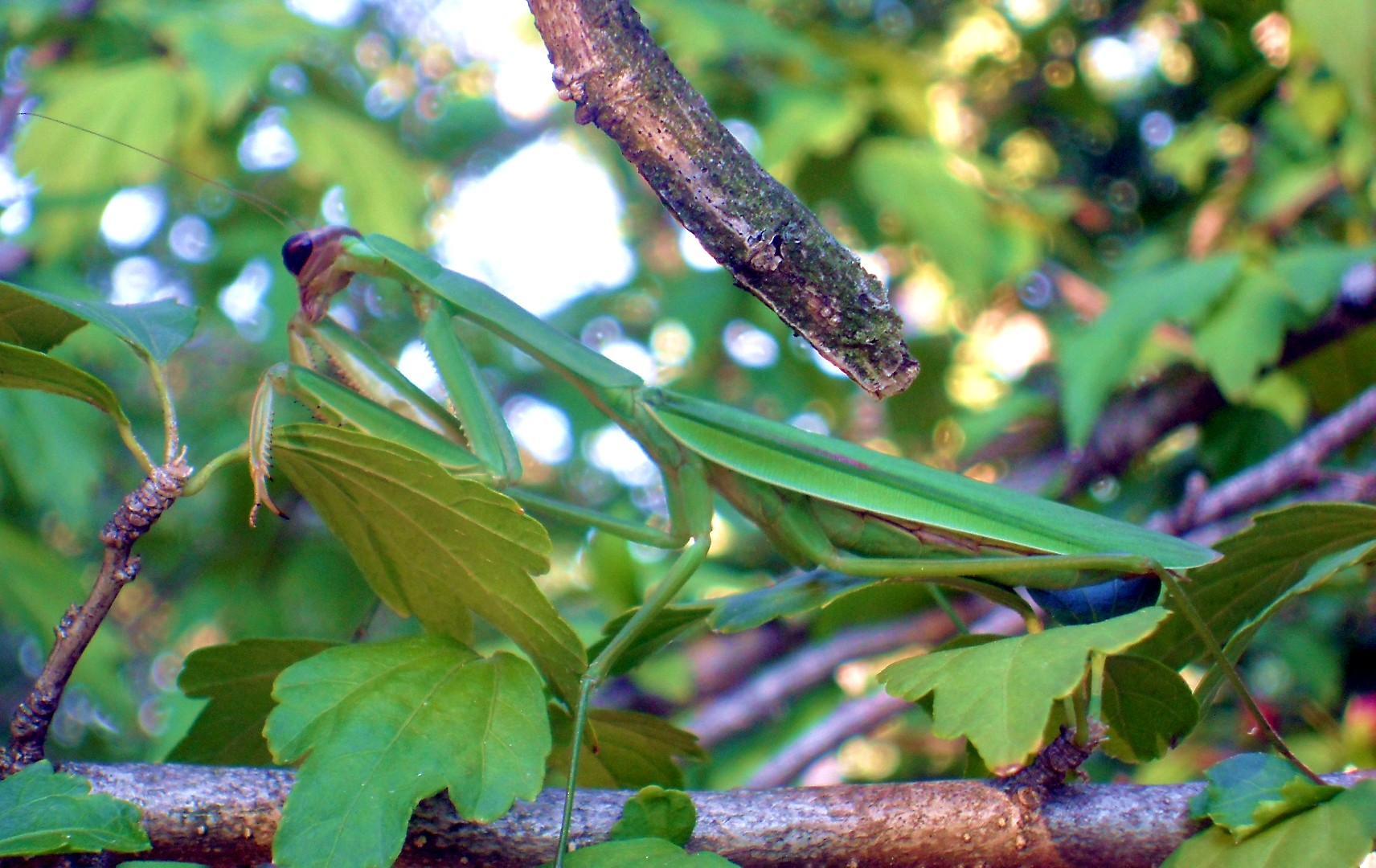 An adult Chinese Mantis (Tenodera Sinensis) perched in a tree after I captured and released it. Photo taken in Maryland, USA.